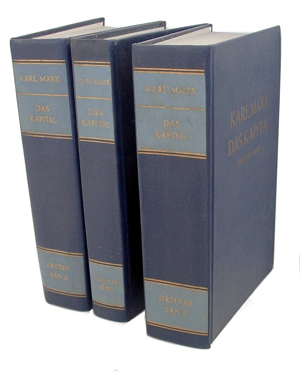 Photo of the book cover of Marx / Engels: "Das Kapital", vol. 1-3 (MEW 23-25), Dietz Verlag Berlin 1973.